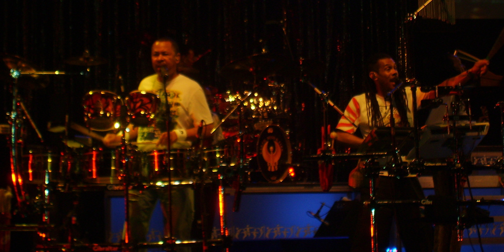 Ralph Johnson - Earth Wind and Fire in concert on June 1st 2007